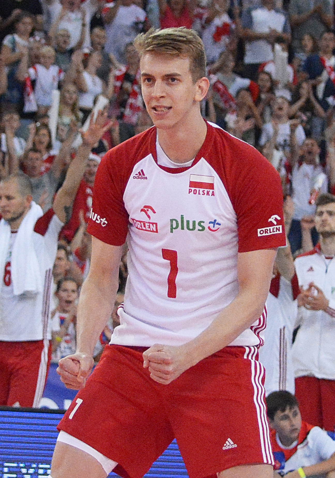 Volleyball Nations League: Poland - France